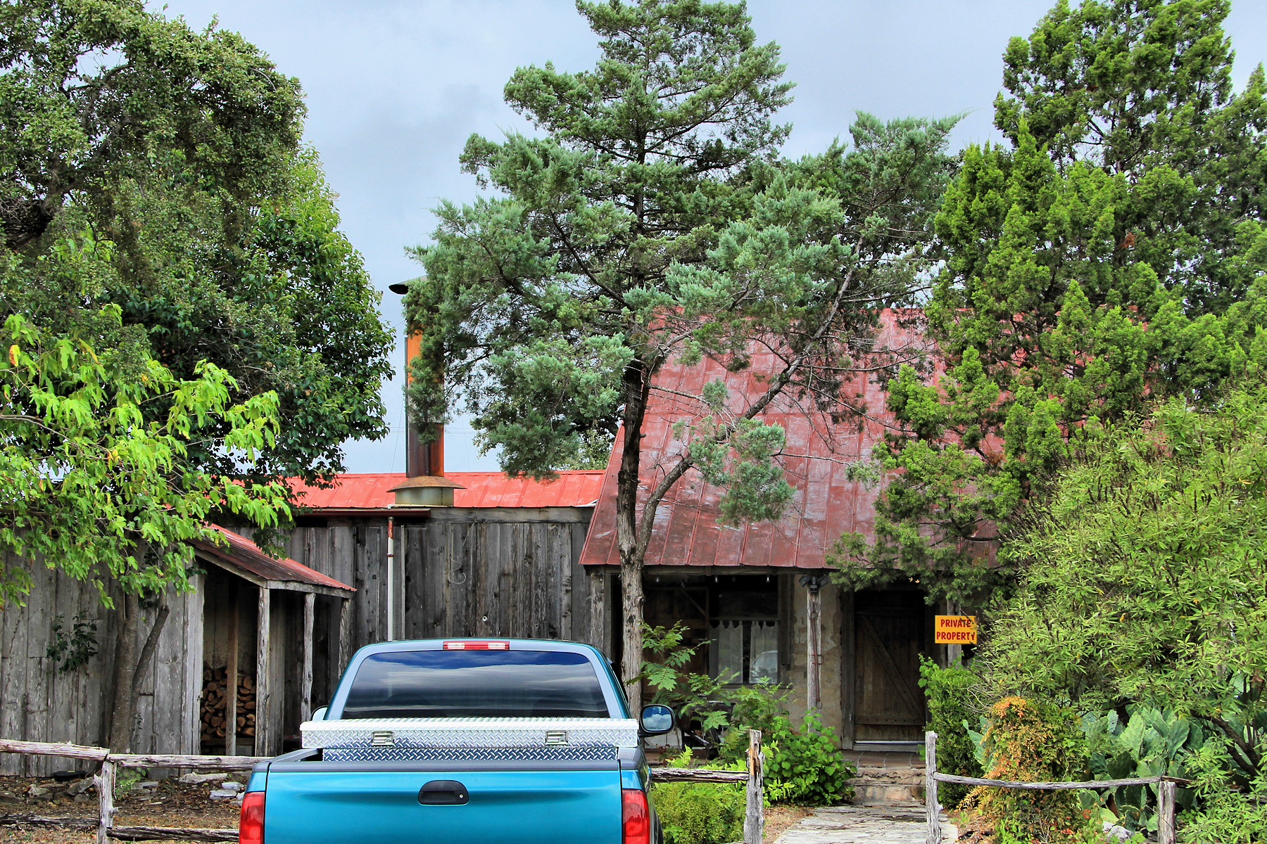 The Max Aue House and Store, built around 1855, part of the Aue Stagecoach Inn in Leon Springs, Texas, United States. The building was listed on the National Register of Historic Places on August 1, 1979.